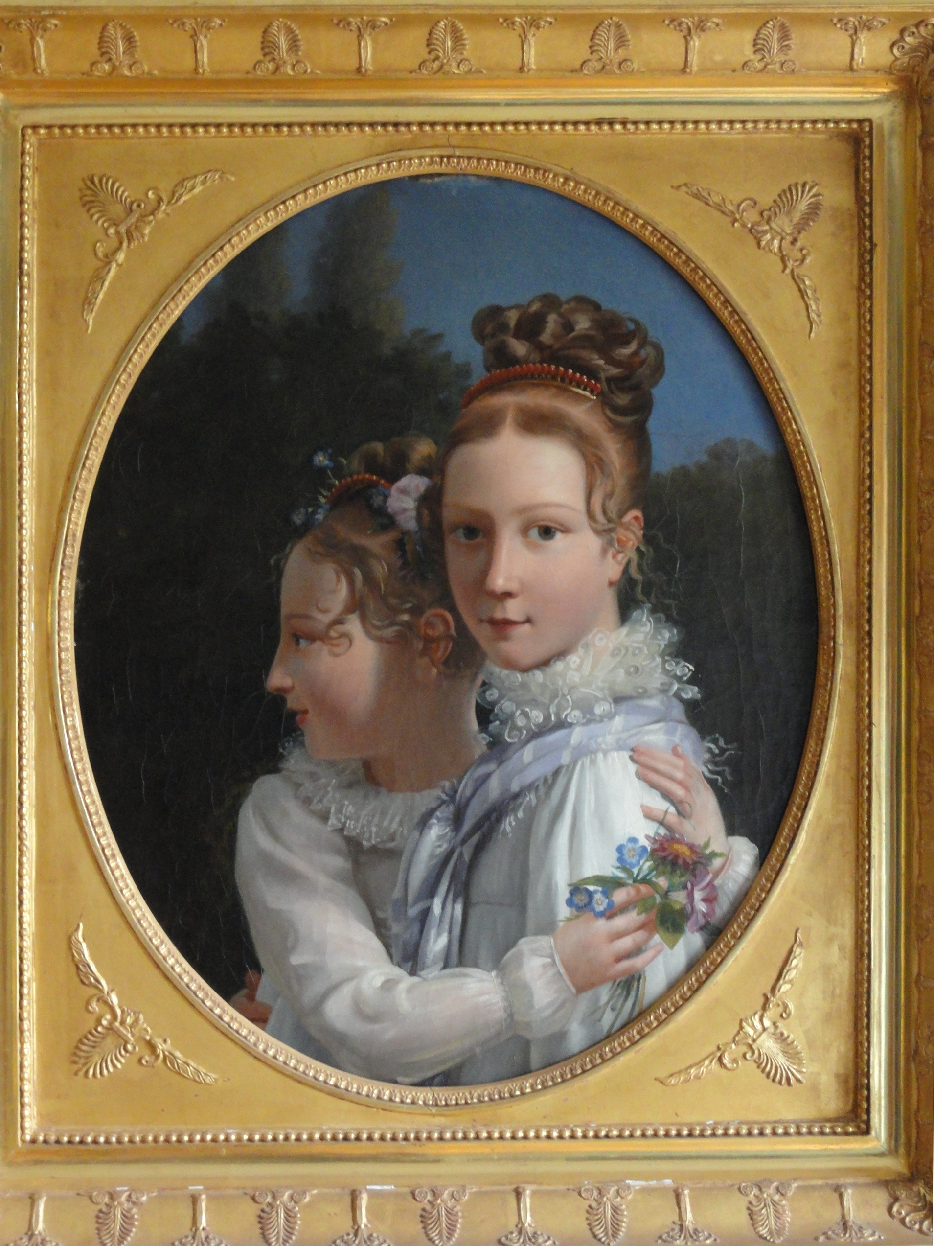 painting of Louis Ducis cs 1815: "Les sœurs Allart" (The Allart sisters). Maison de chateaubriand